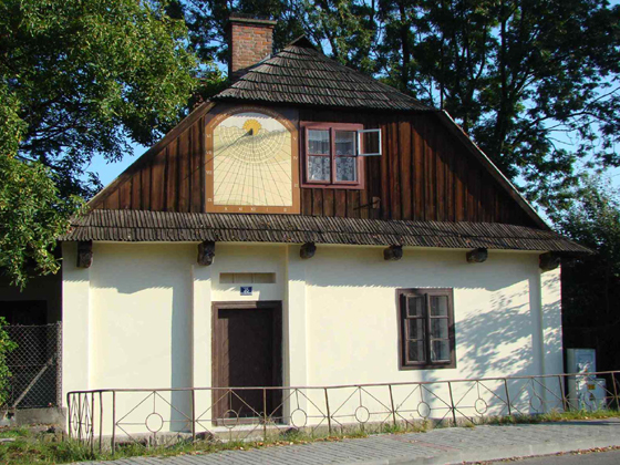 The vertical sundial on the wall of the early XIX Century parochial school at Mickiewicza 35 street in Zakliczyn